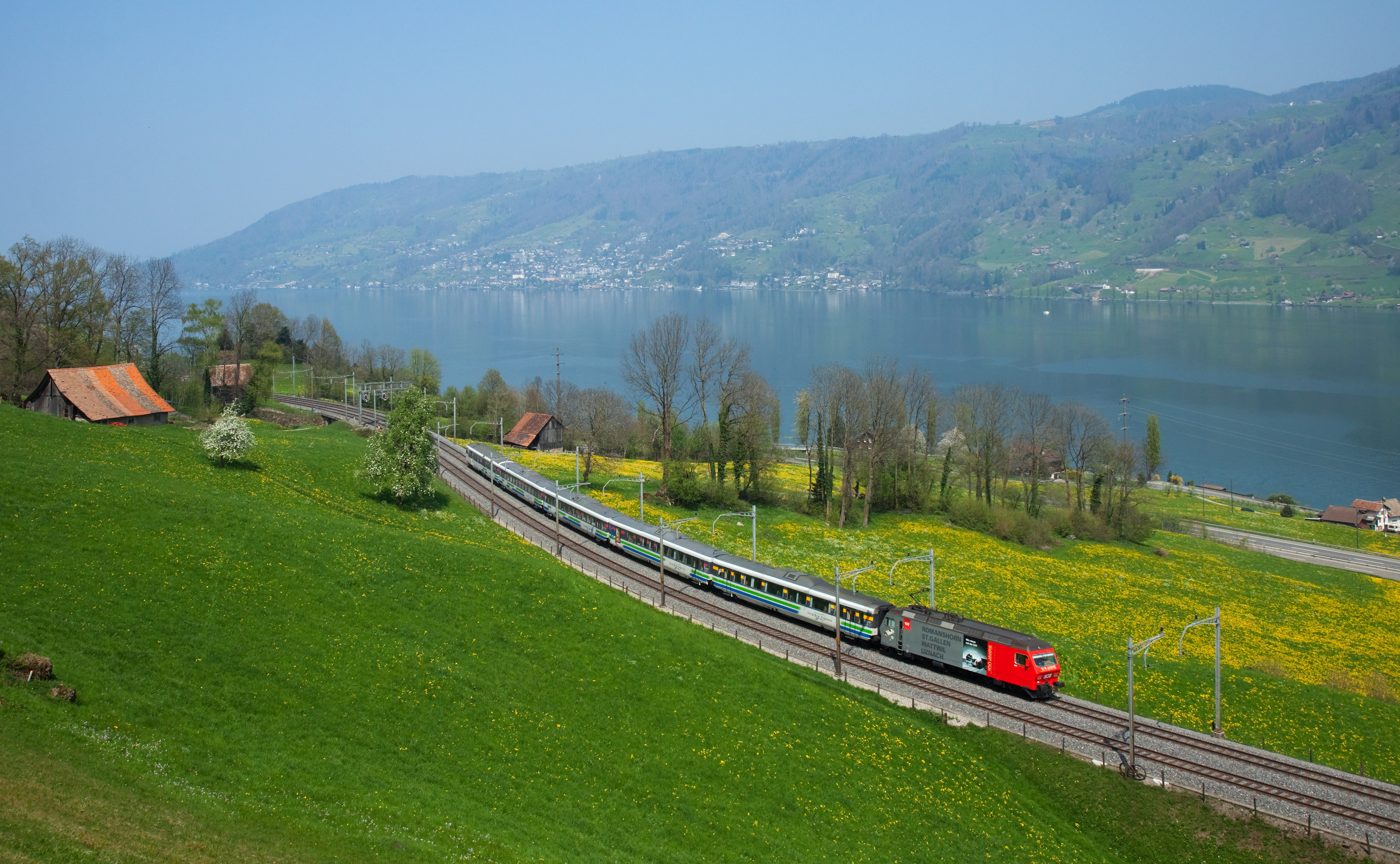 SOB interregio train "Voralpenexpress" hauled by a Re 456 locomotive, which carries a special livery for the 100 years "Rickenbahn" (Uznach - St. Gallen - Romanshorn) jubilee. The train is following the lake Zug shoreline on the SBB line from Immensee to Arth-Goldau.